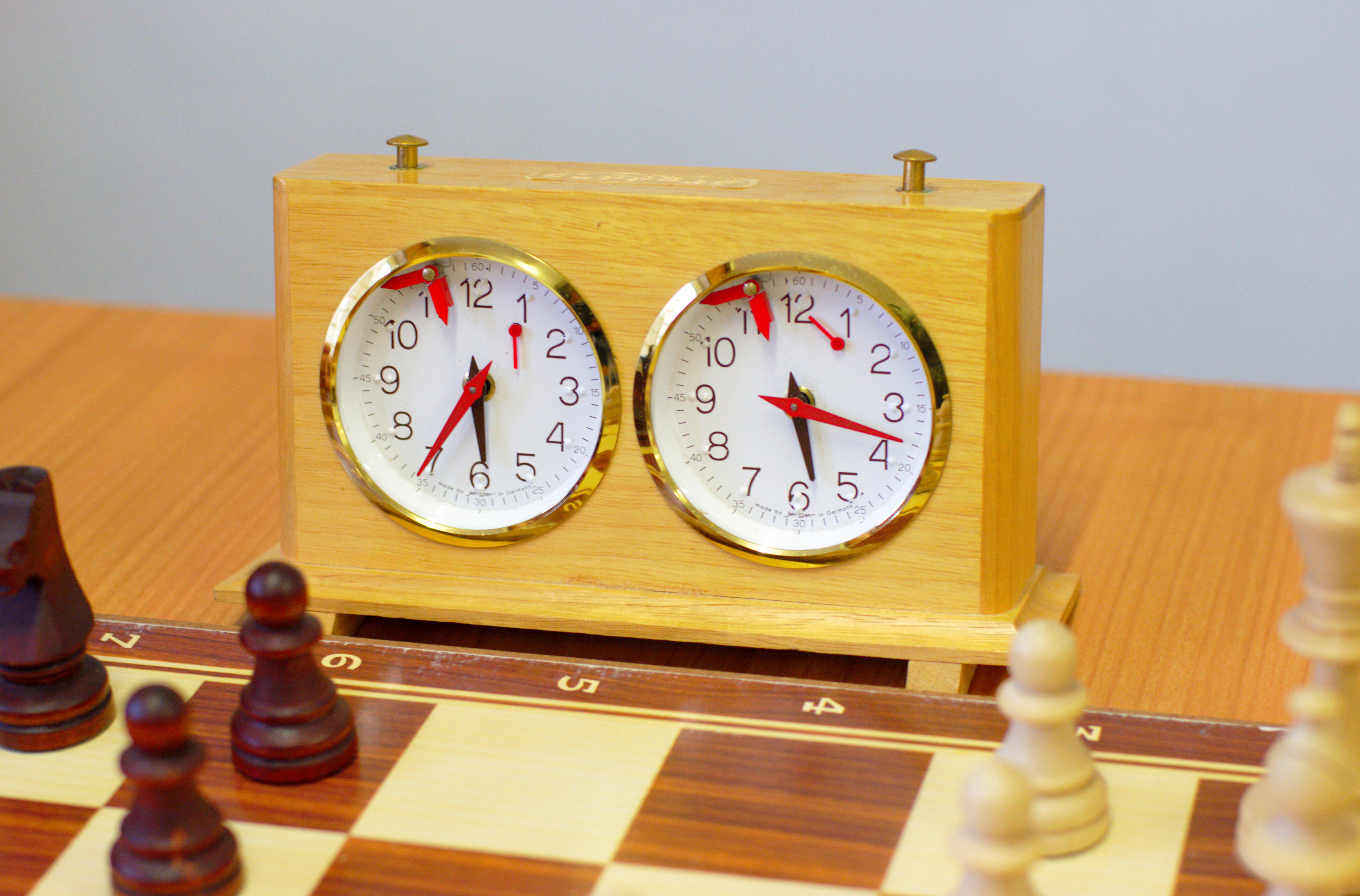 Mechanical chess clock for blind players